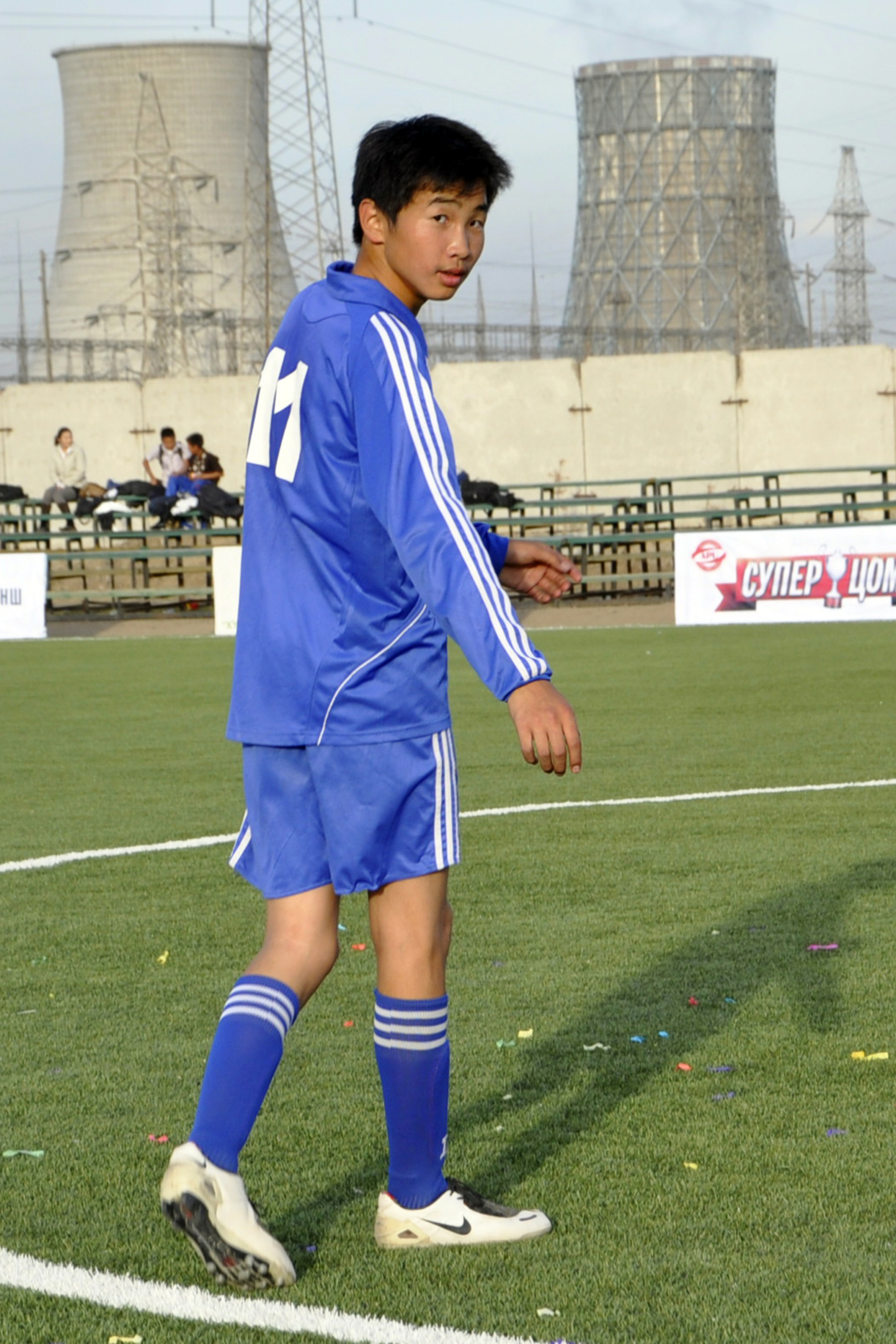 2012.09.30 Deren Cup (3)